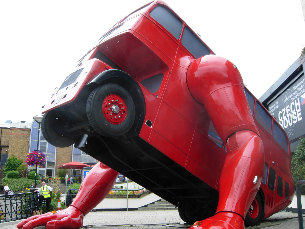 London Booster by David Černý.